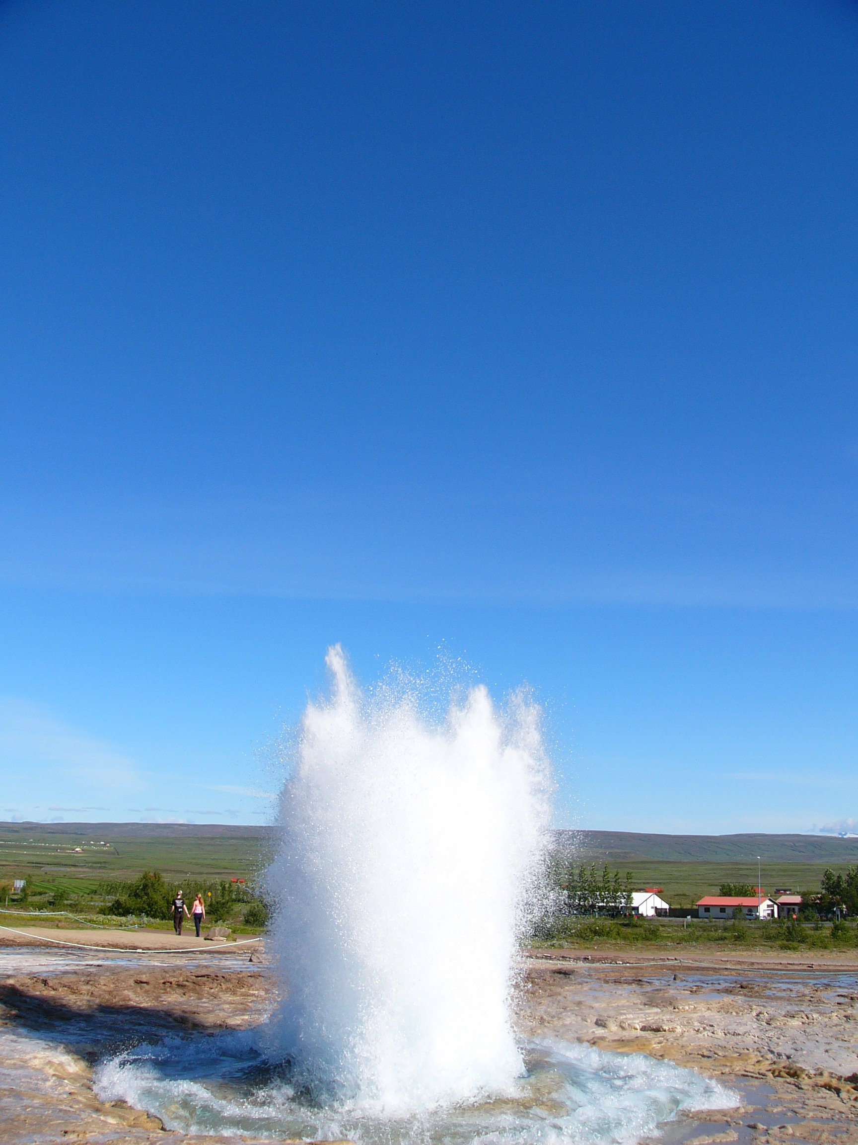 Simon Cole Strokkur, Iceland 24/07/2005